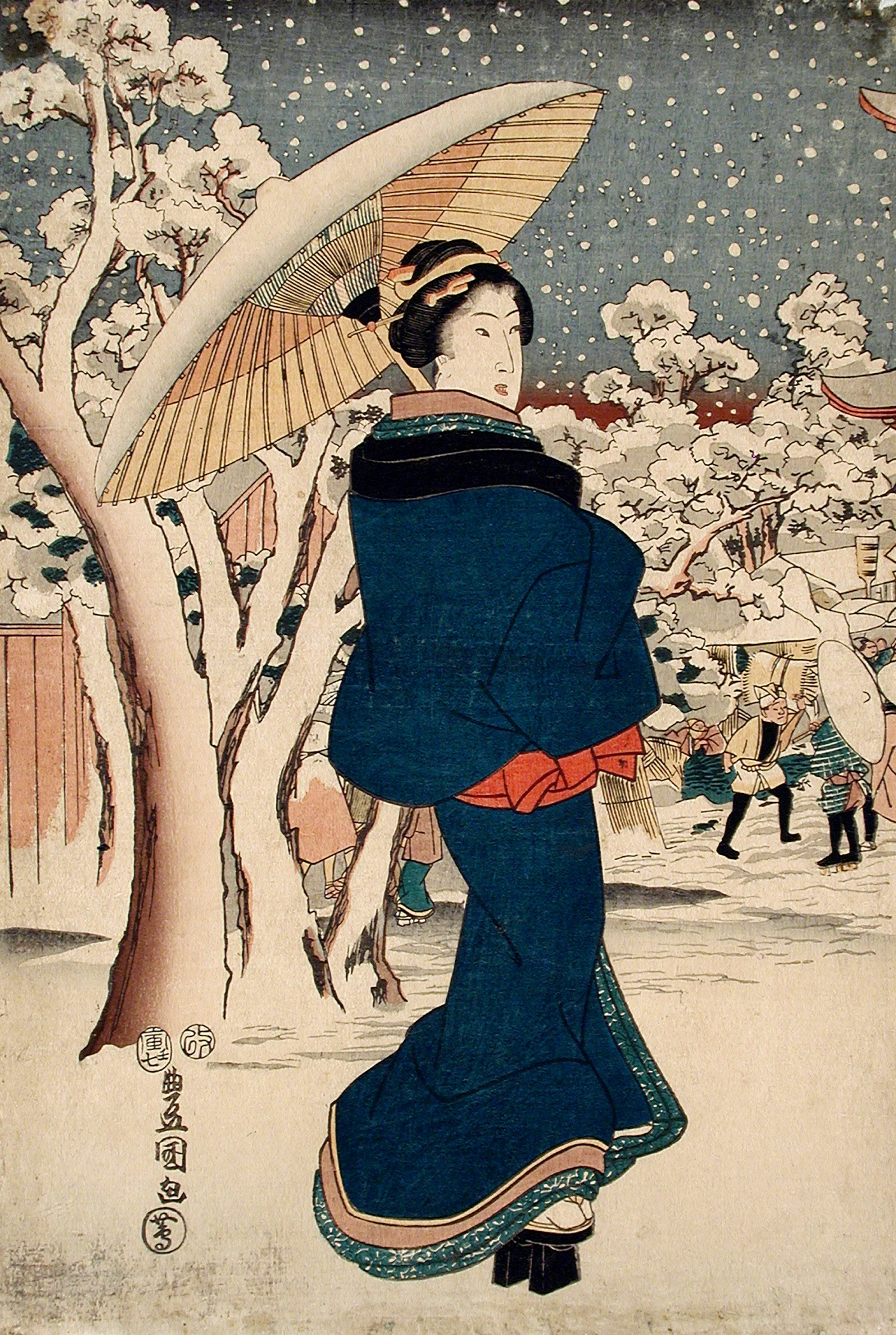 Japan, 19th century Prints; woodcuts Color woodblock print Image: 13 5/8 x 9 9/16 in. (34.6 x 24.3 cm); Paper: 14 1/16 x 9 9/16 in. (35.7 x 24.3 cm) Gift of Mr. and Mrs. Felix Juda (M.73.37.608) Japanese Art